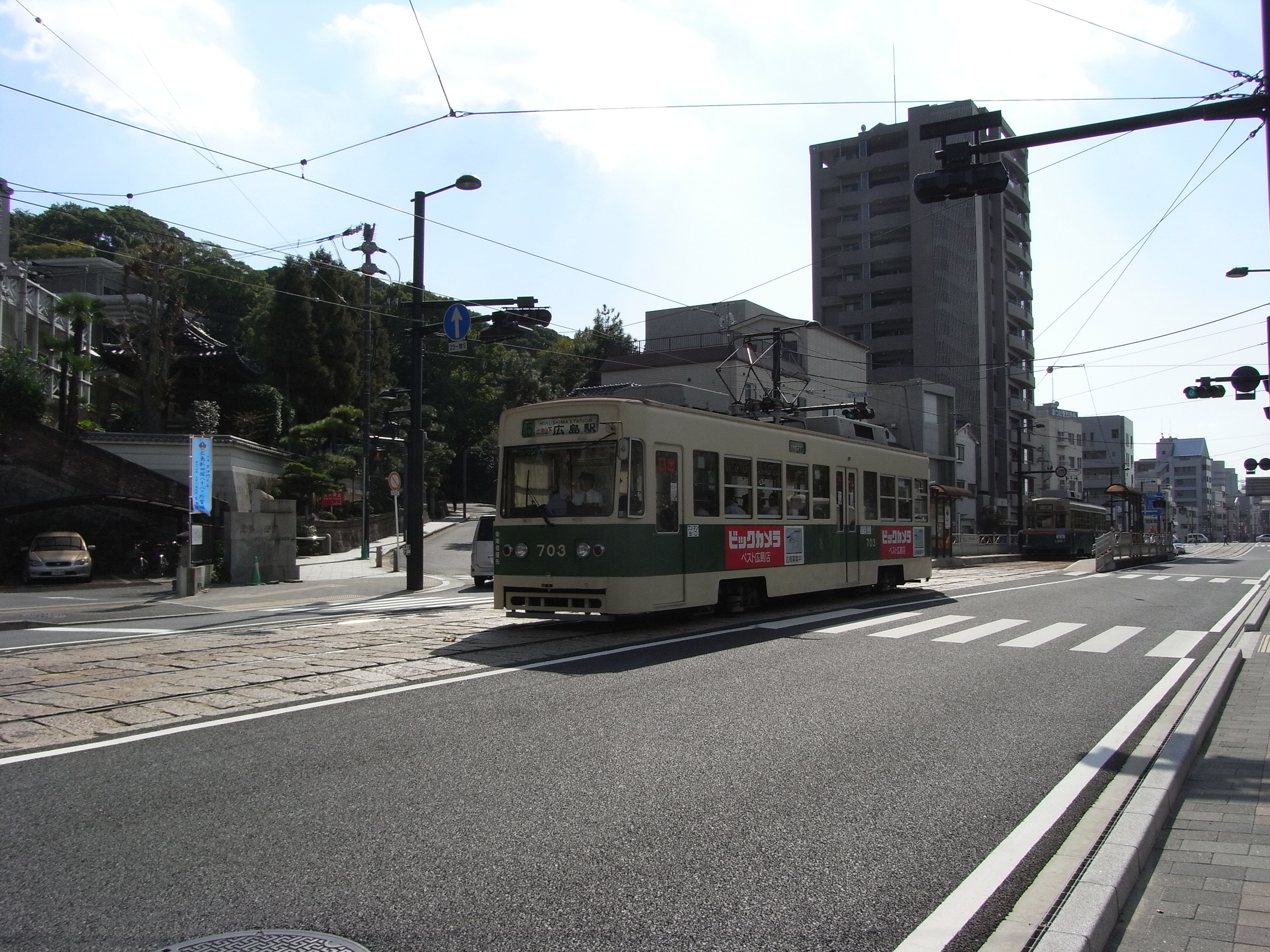 Hiroshima Electric Railway Minami Line near Hijiyama-shita Station